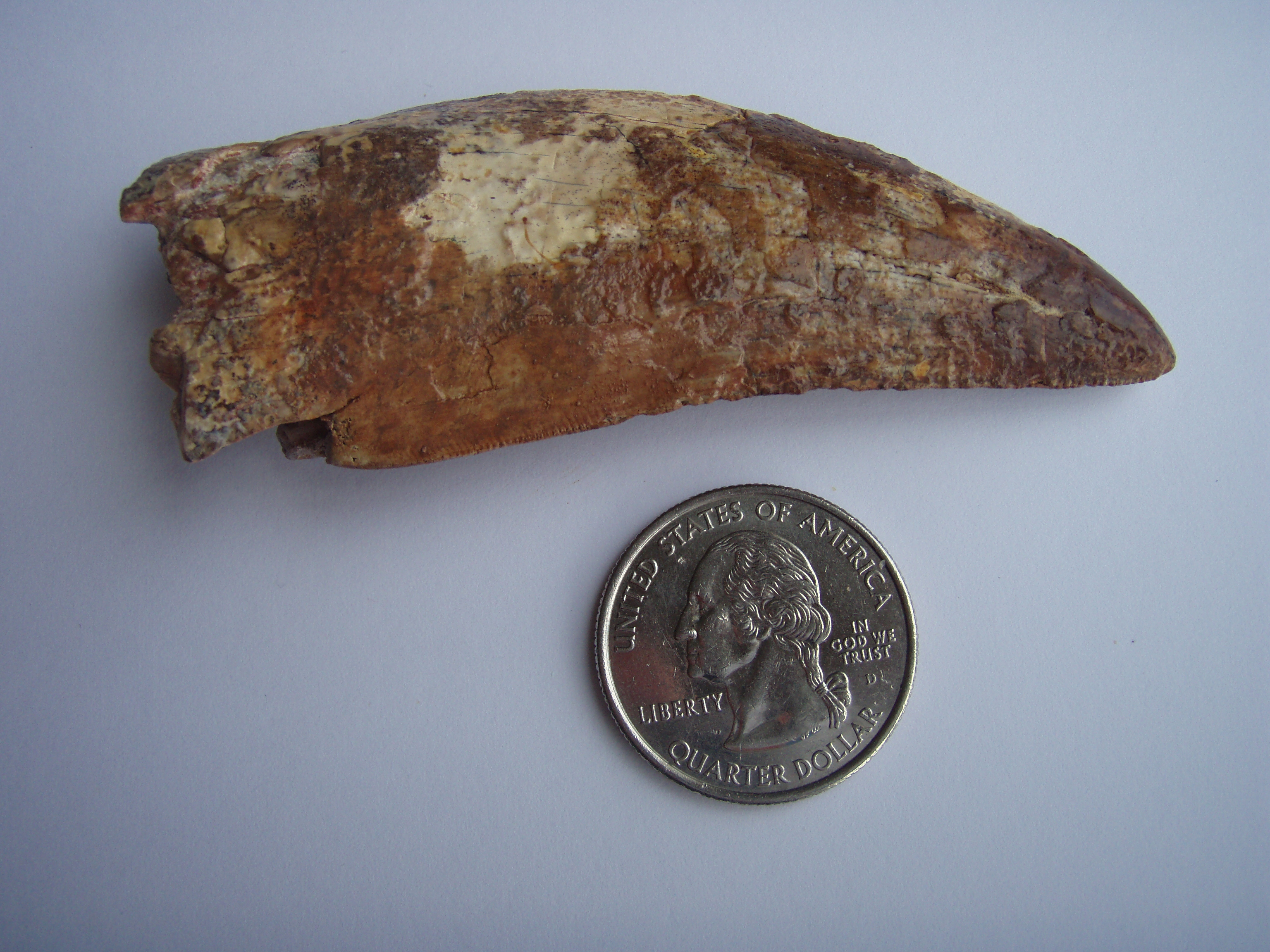 Carcharodontosaurus tooth, which was found in Sahara Desert